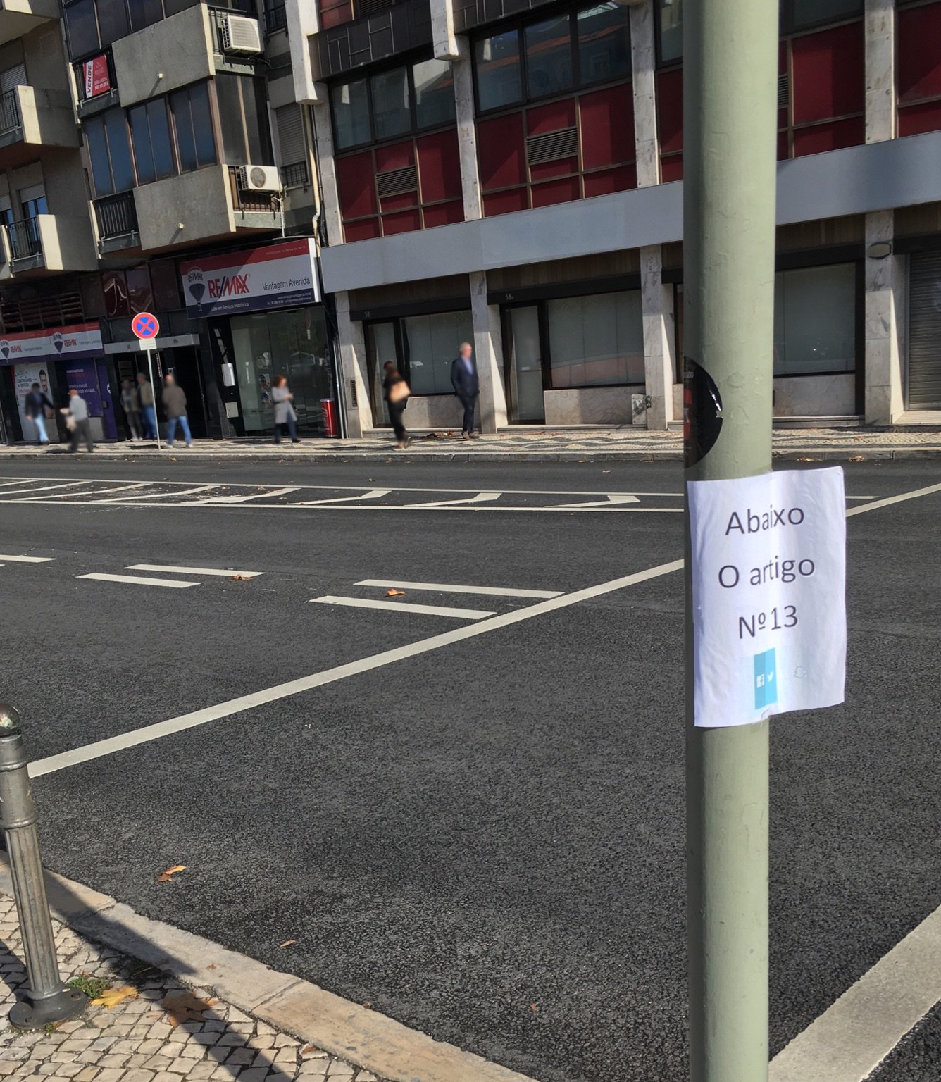 poster on a traffic light about the controversial article 13 of the European copyright reform directive